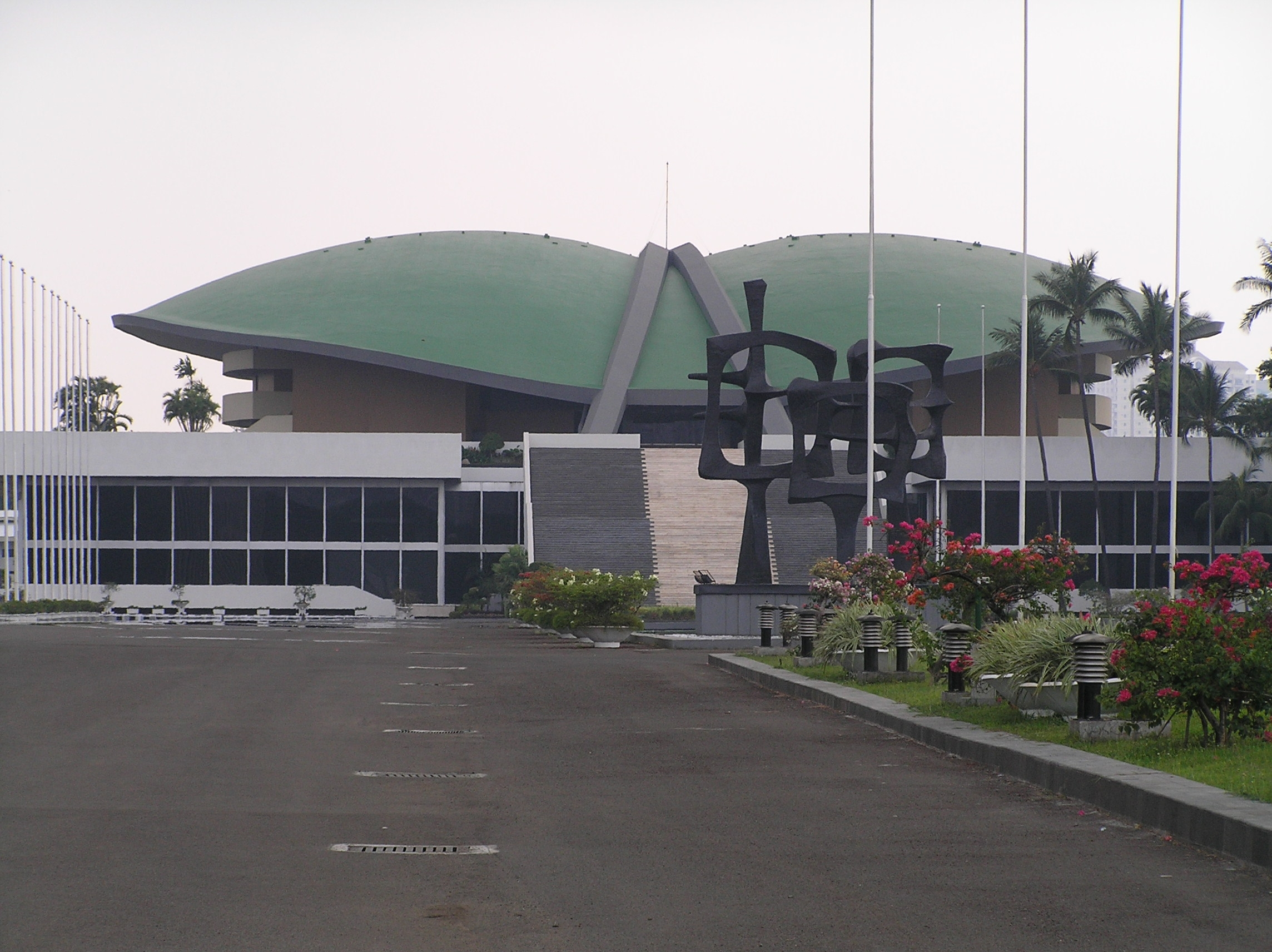 The building in Jakarta where Indonesia's People's Representative Council, Regional Representatives Council and People's Consultative Assembly holds its plenary sessions